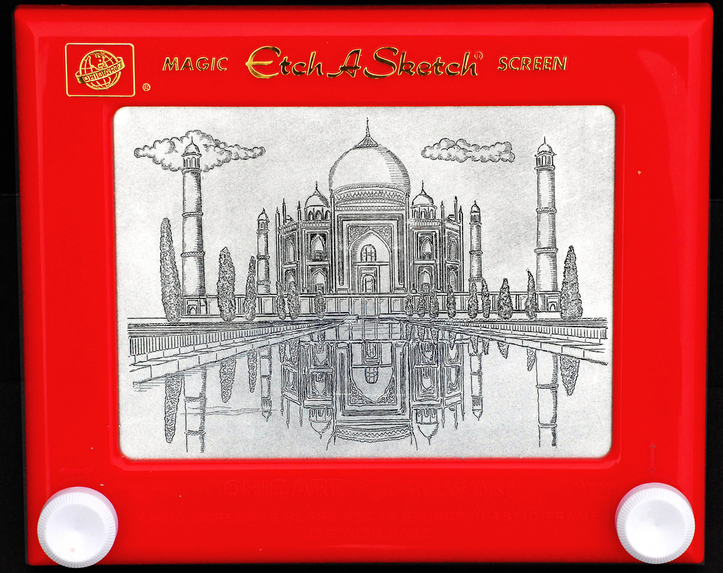 The Taj Mahal, complete with ripples in the reflection